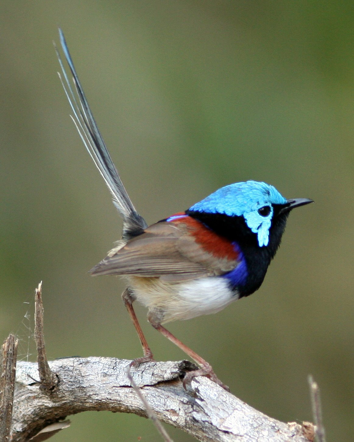 Variegated Fairy-wren, Malurus lamberti, breeding male, race lamberti